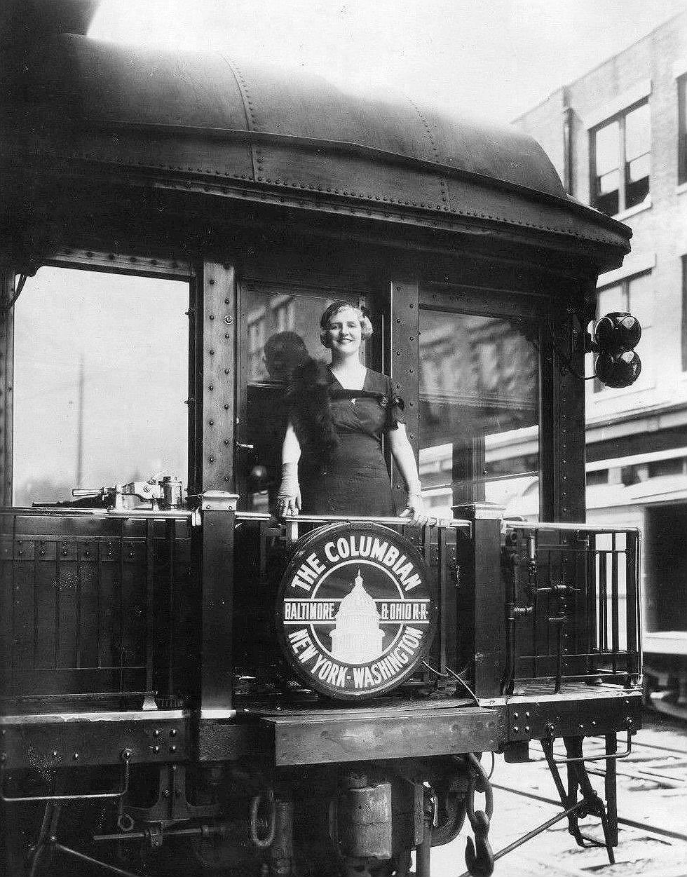 Photo of CBS (Columbia Broadcasting System) vocalist Harriet Lee aboard the new Baltimore and Ohio train The Columbian. The train traveled between New York (Jersey City) and Washington DC and was the first passenger train to use air conditioning. The item has no copyright markings on it as can be seen in the links above.